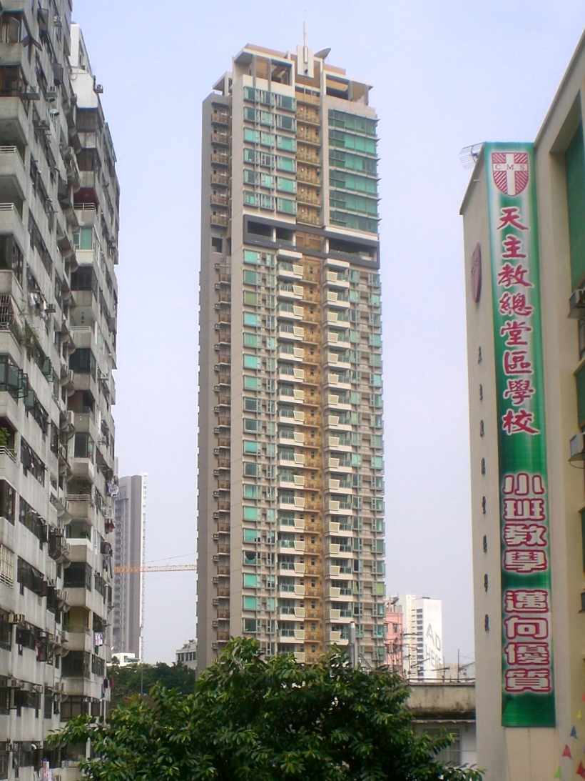 上環 律打街近zh:醫院道望 上環zh:天主教總堂區學校 & 榮華閣 西環zh:匯賢居